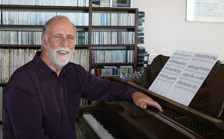 Publicity photograph of Gary Daverne ONZM at the piano